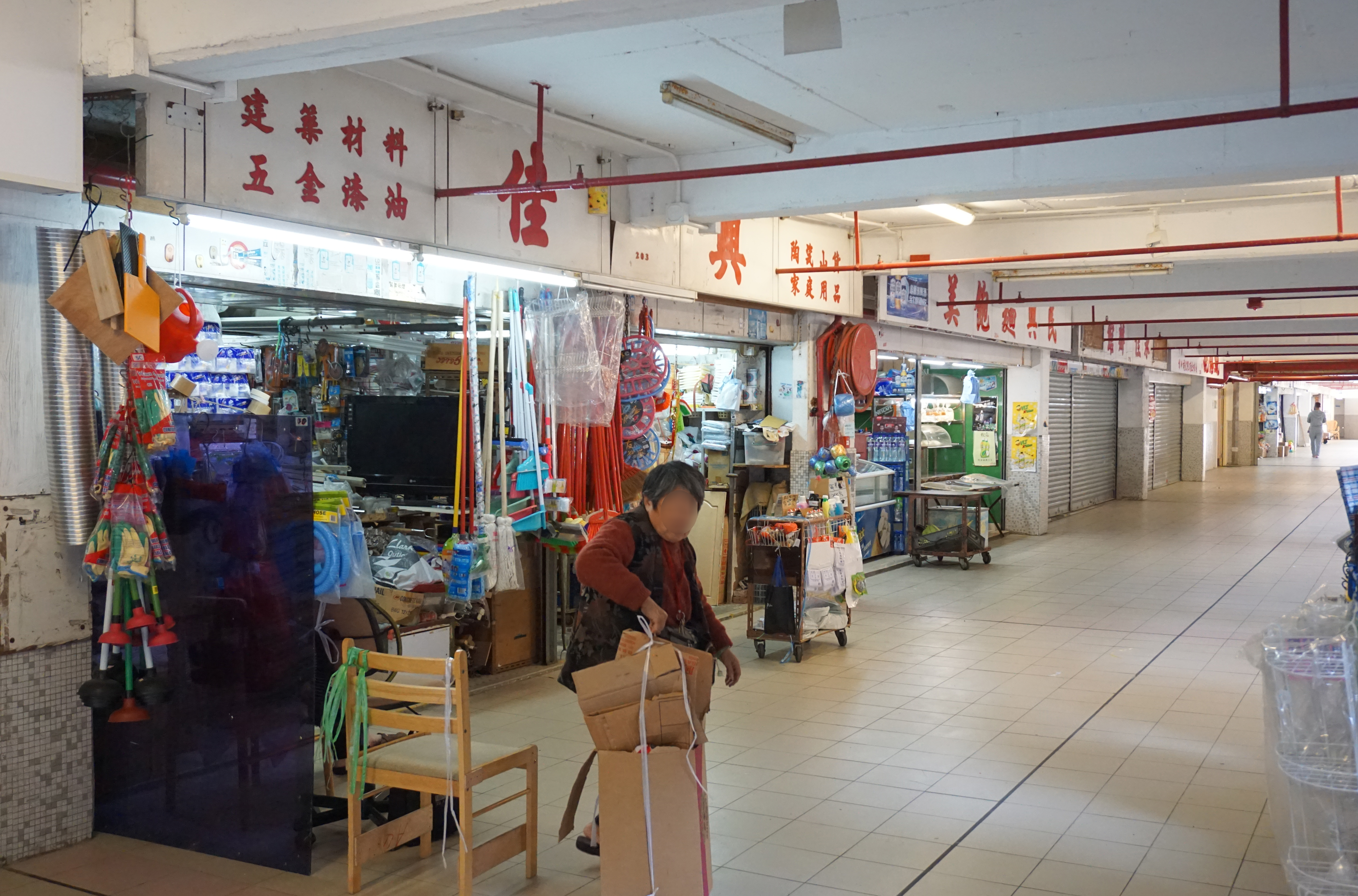 Cheung Shan Estate in Tsuen Wan, Hong Kong.